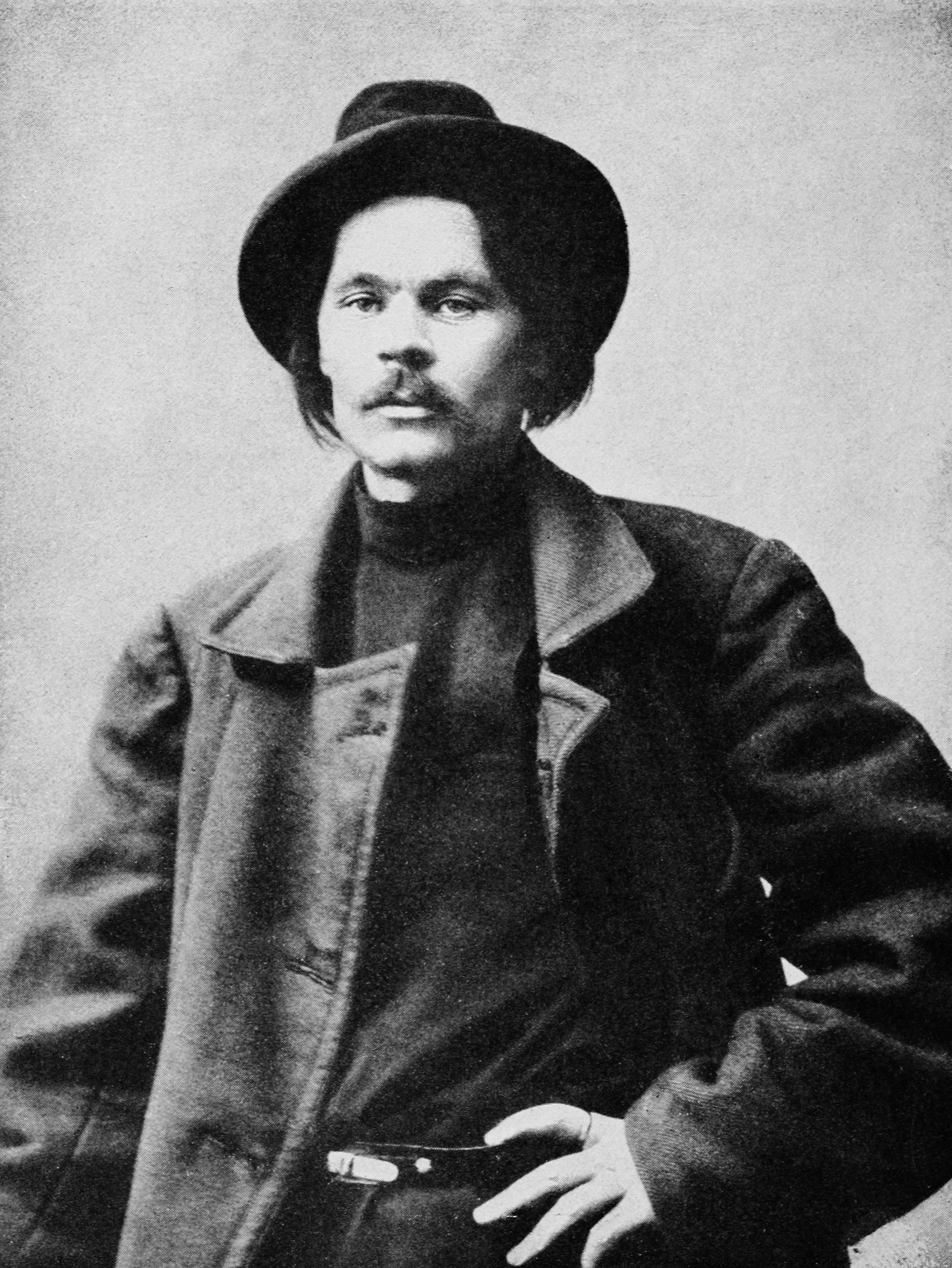 Maxim Gorky